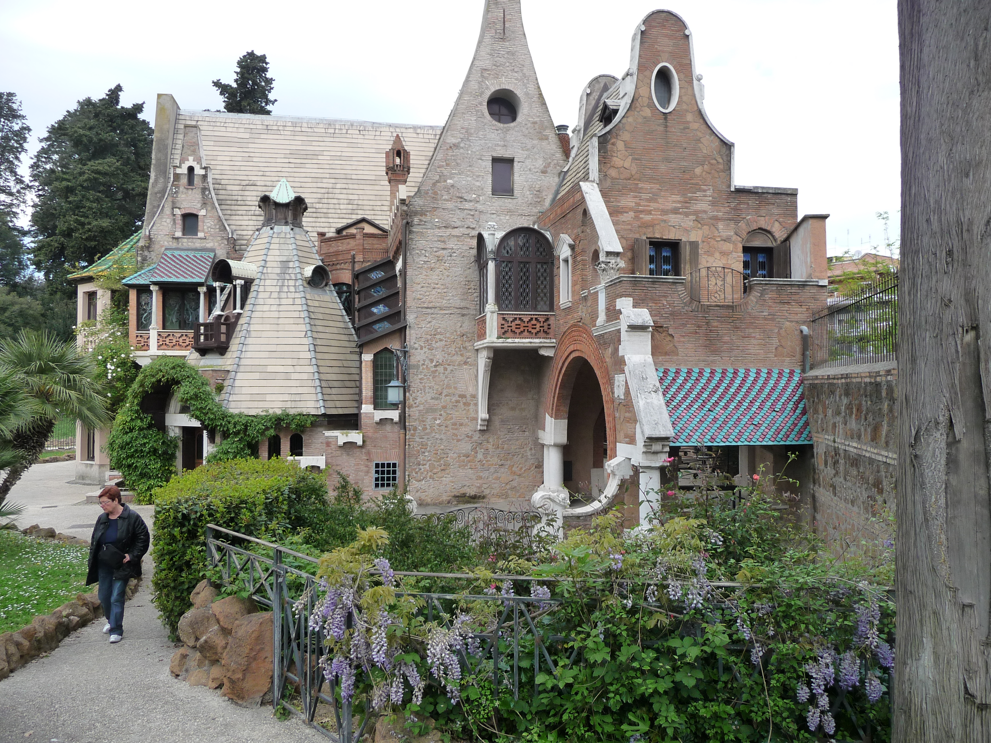 Casina delle civette in Rome